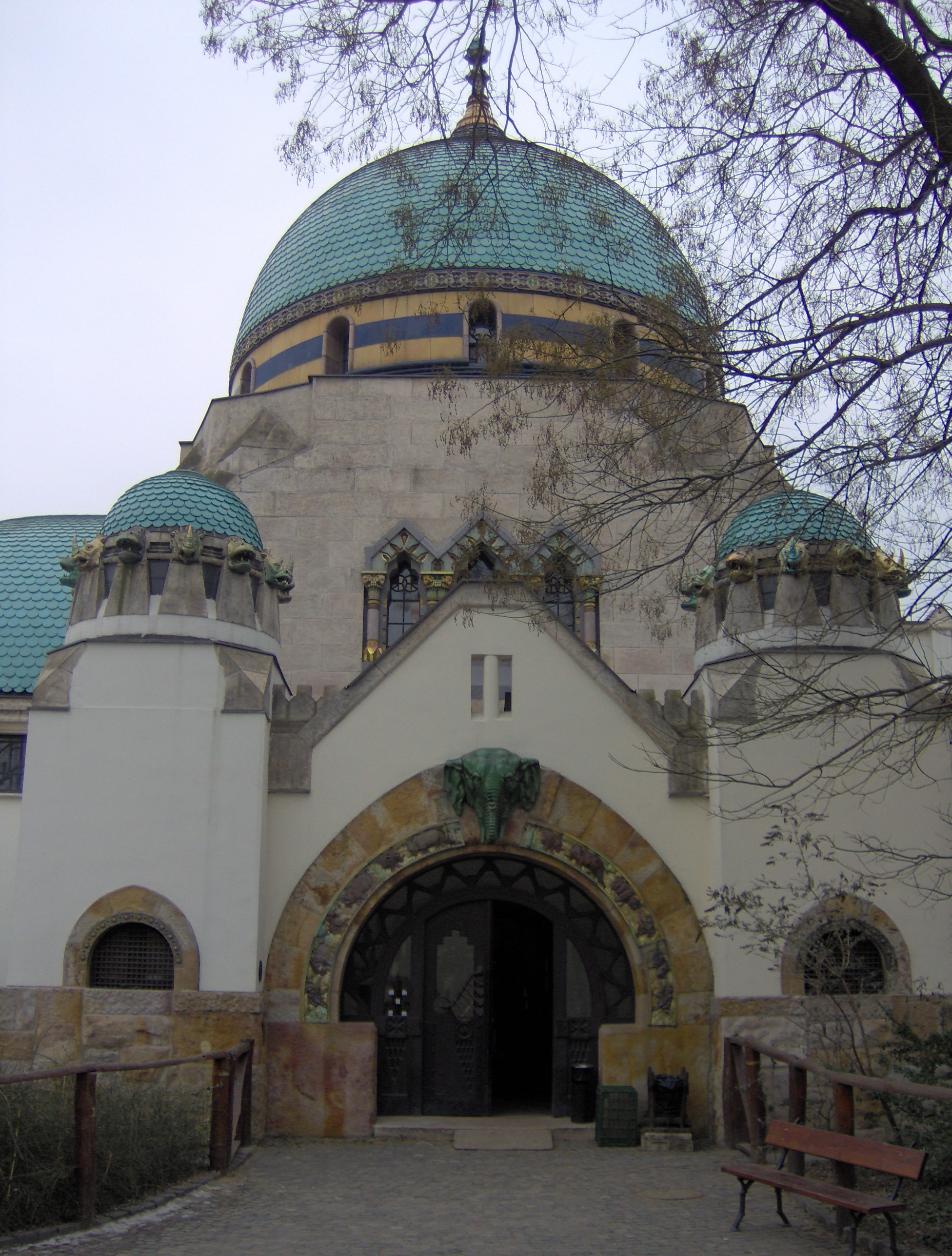 Elephant House at the Budapest Zoo